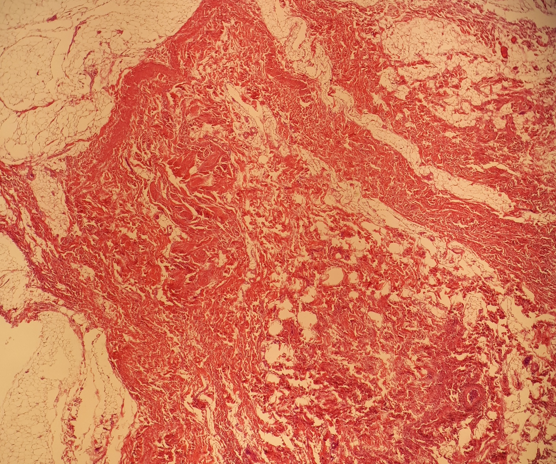 Histopathology of a fibrolipoma: Large amount of fibrous tissue in a lipoma